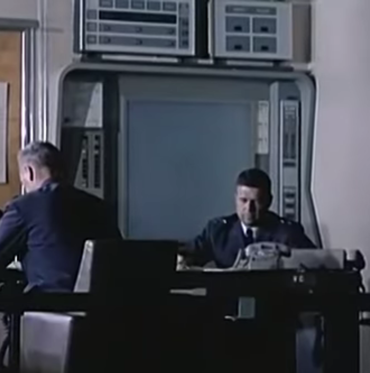 Iconorama display unit at Strategic Air Command HQ, Offut Air Force Base, in 1964. Stills from "Strategic Air Command: "SAC Command Post" 1964 United States Air Force"